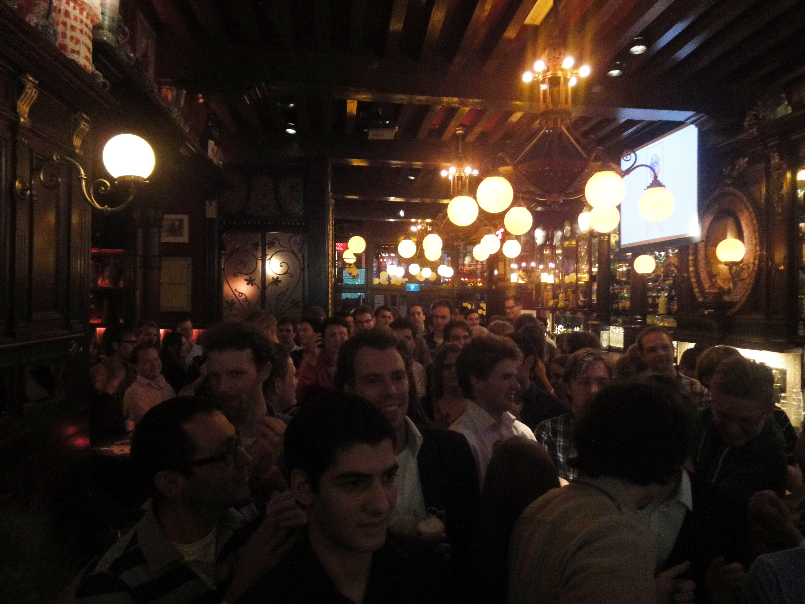 the 35 year jubilee of the Young Socialists in the Netherlands